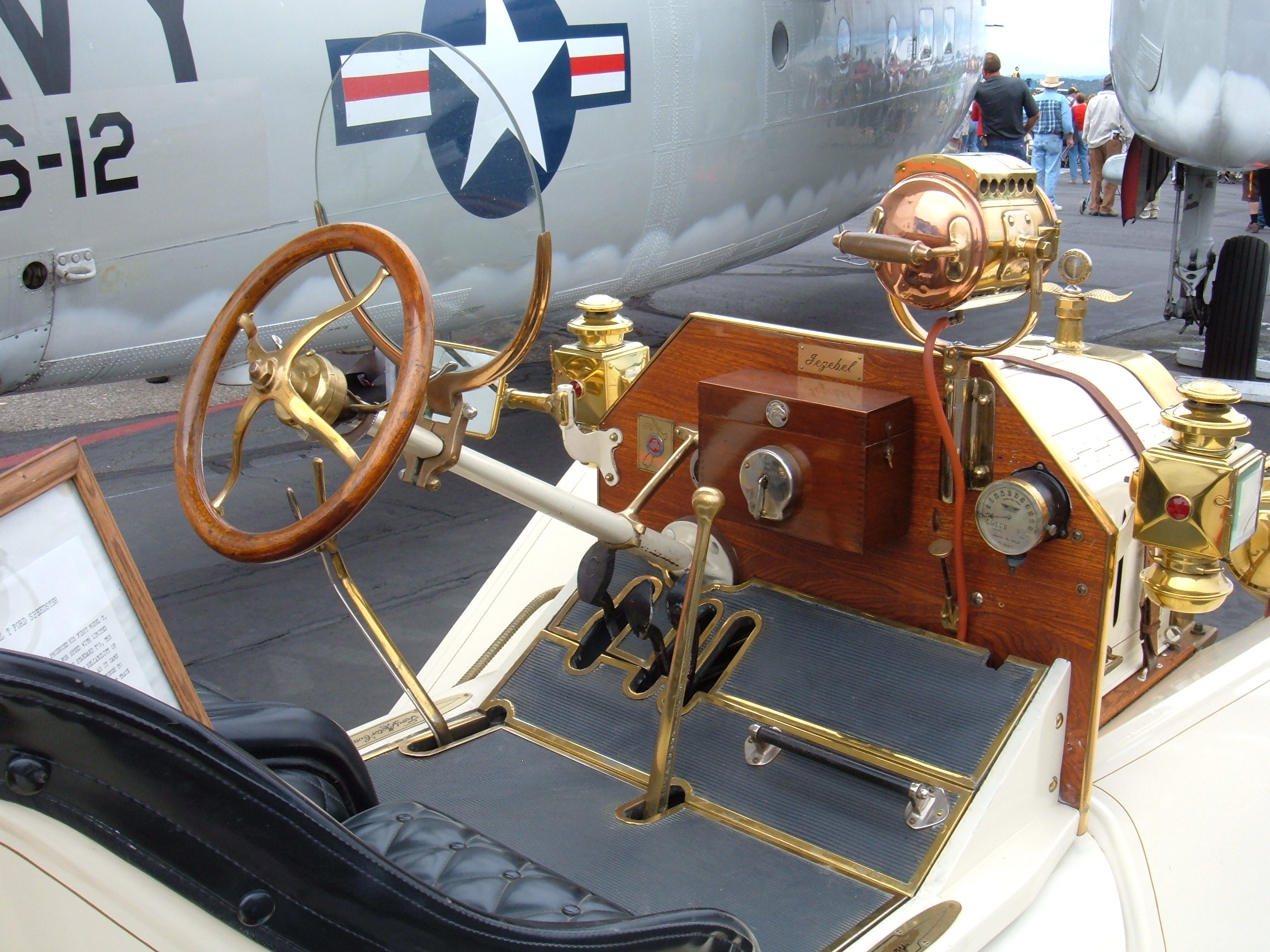 The dashboard of a 1913 Ford Model T Speedster at the Wings over Wine Country 2008 air show at the Charles M. Schulz - Sonoma County Airport in Sonoma County, California.